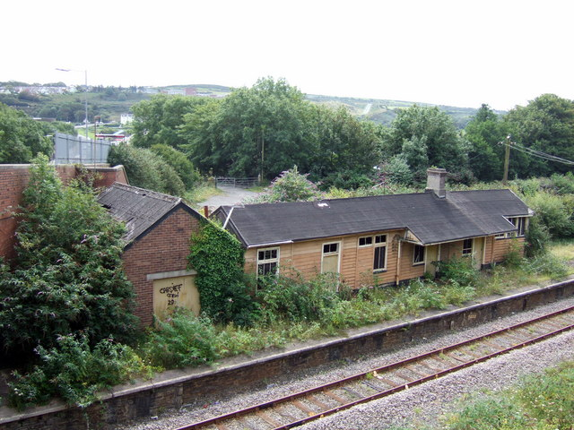 Old railway station Wdig/Goodwick The station opened here in 1899 and closed in 1964. It has been replaced by a terminus at the ferry port a short distance away. This is the east platform with its derelict waiting room, viewed from the road bridge above. The west platform has gone.